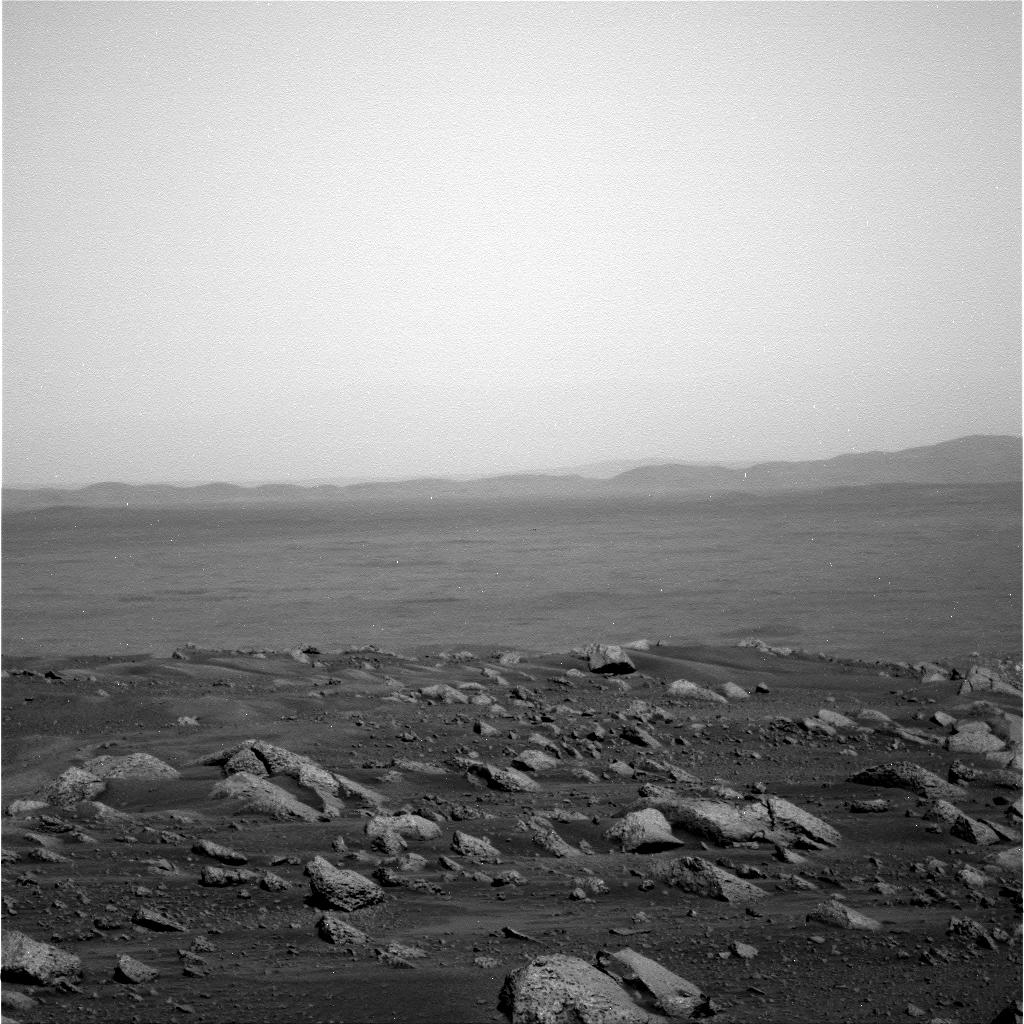 Walls of Thira crater, seen from Spirit rover.